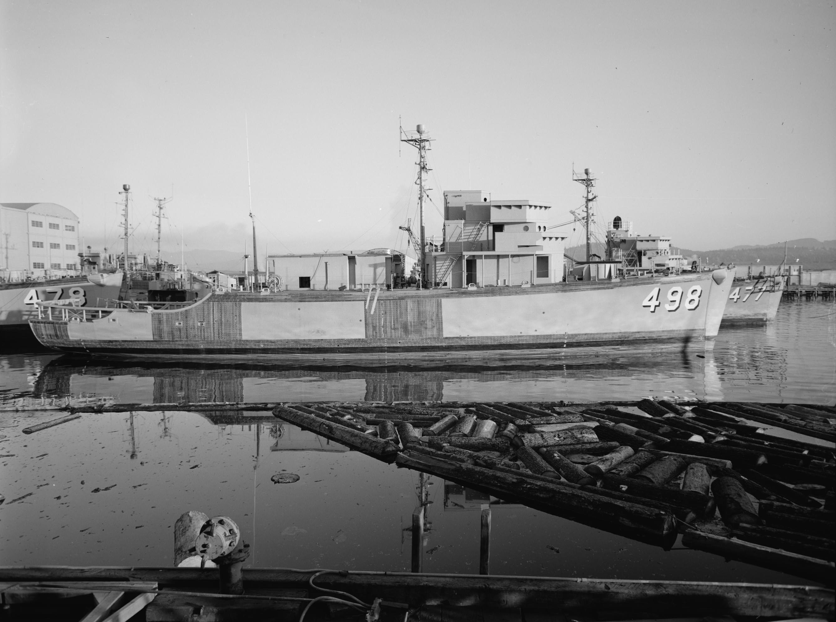 The Royal Norwegian Navy minesweeper KNM Lågen (M 950) fitting out at Bellingham Shipyards Company, Bellingham, Washington (USA), circa in 1954. The ship shows the U.S. Navy designation AM-498 (later MSO-498), but was built for Norway. In the background are the French minesweeper Vinh Long (M 619), right (as MSO-477), and the Portugese minesweeper NRP São Jorge (M 415), as MSO-478. Lågen was sold to Belgium in 1966 and renamed Dufour (M903). The ship was finally scrapped in 1996.